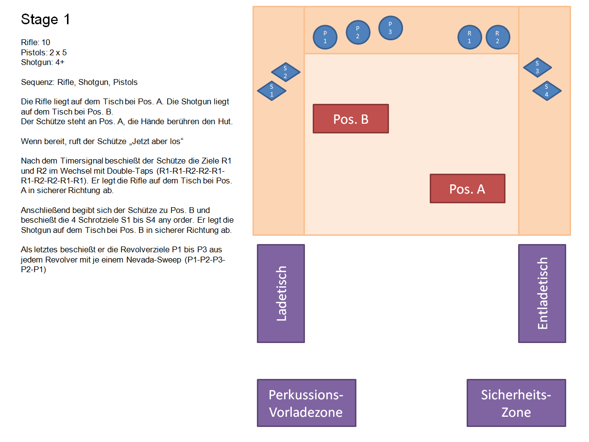 sample of a stage layout in Cowboy Action Shooting (CAS) German labels